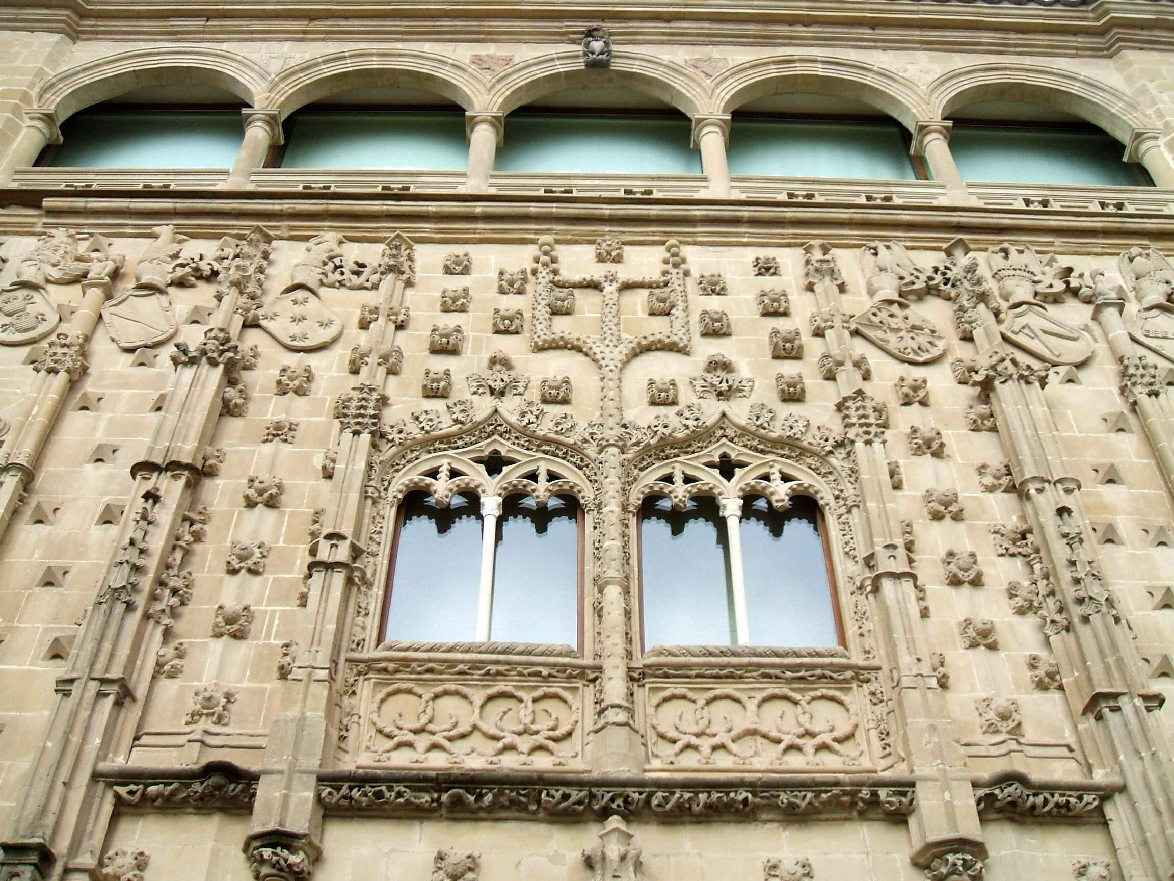 Palacio de Jabalquinto (Baeza, Jaén)